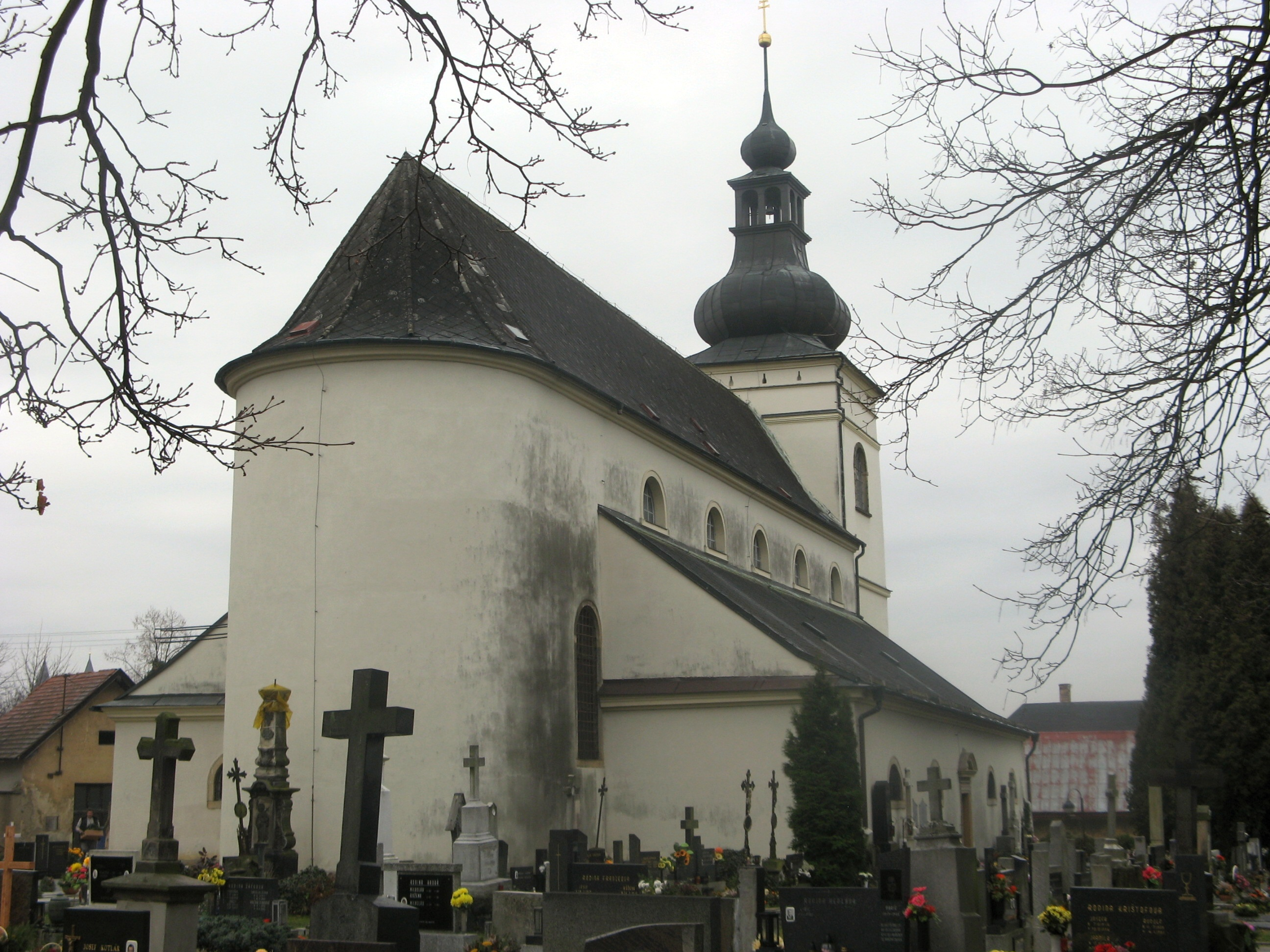 Church of St. Giles, Svitavy, Czech Republic